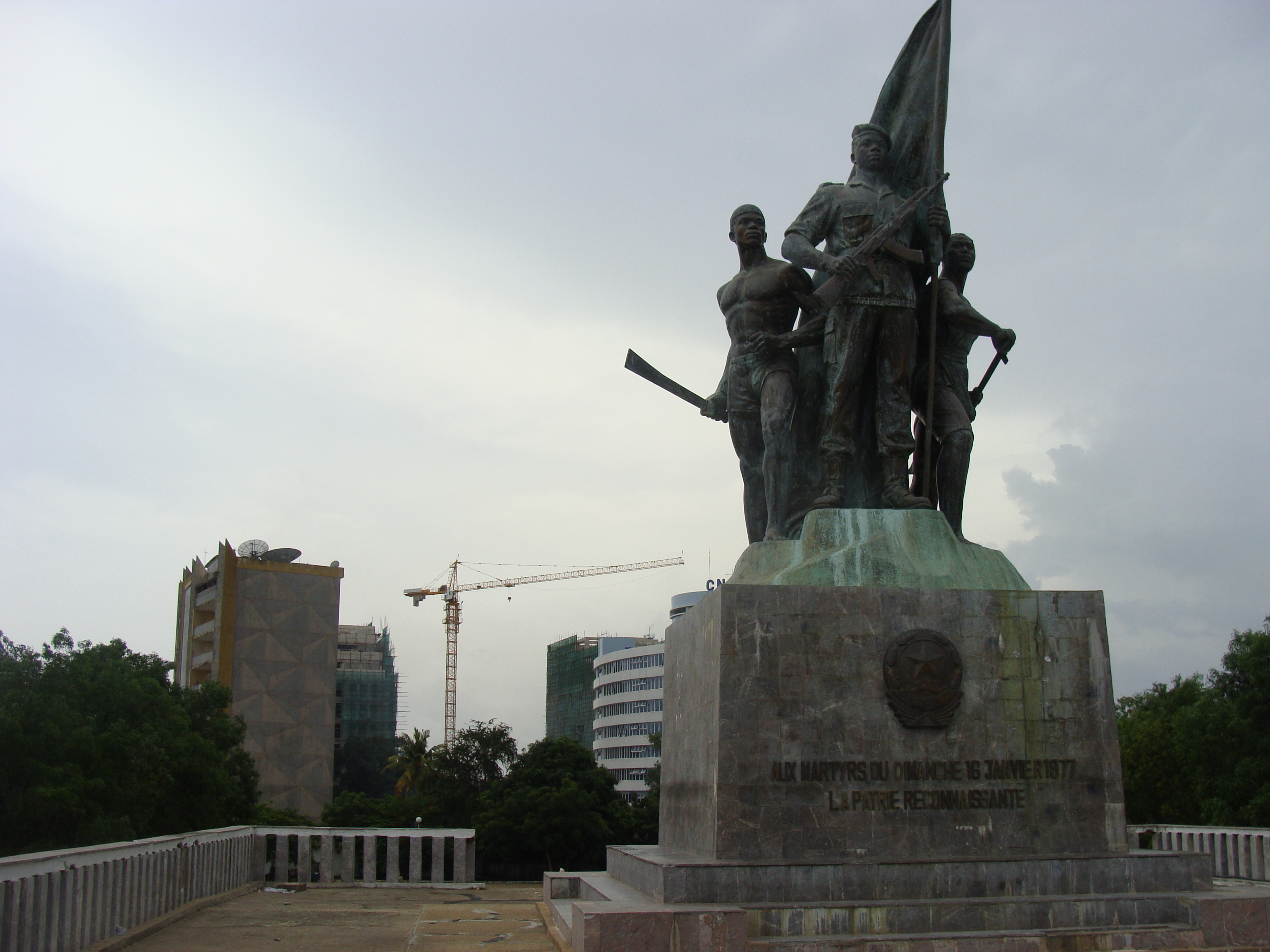 Monument to the victims of the coup attempt of January 16, 1977. Place des Martyrs, Cotonou, Bénin